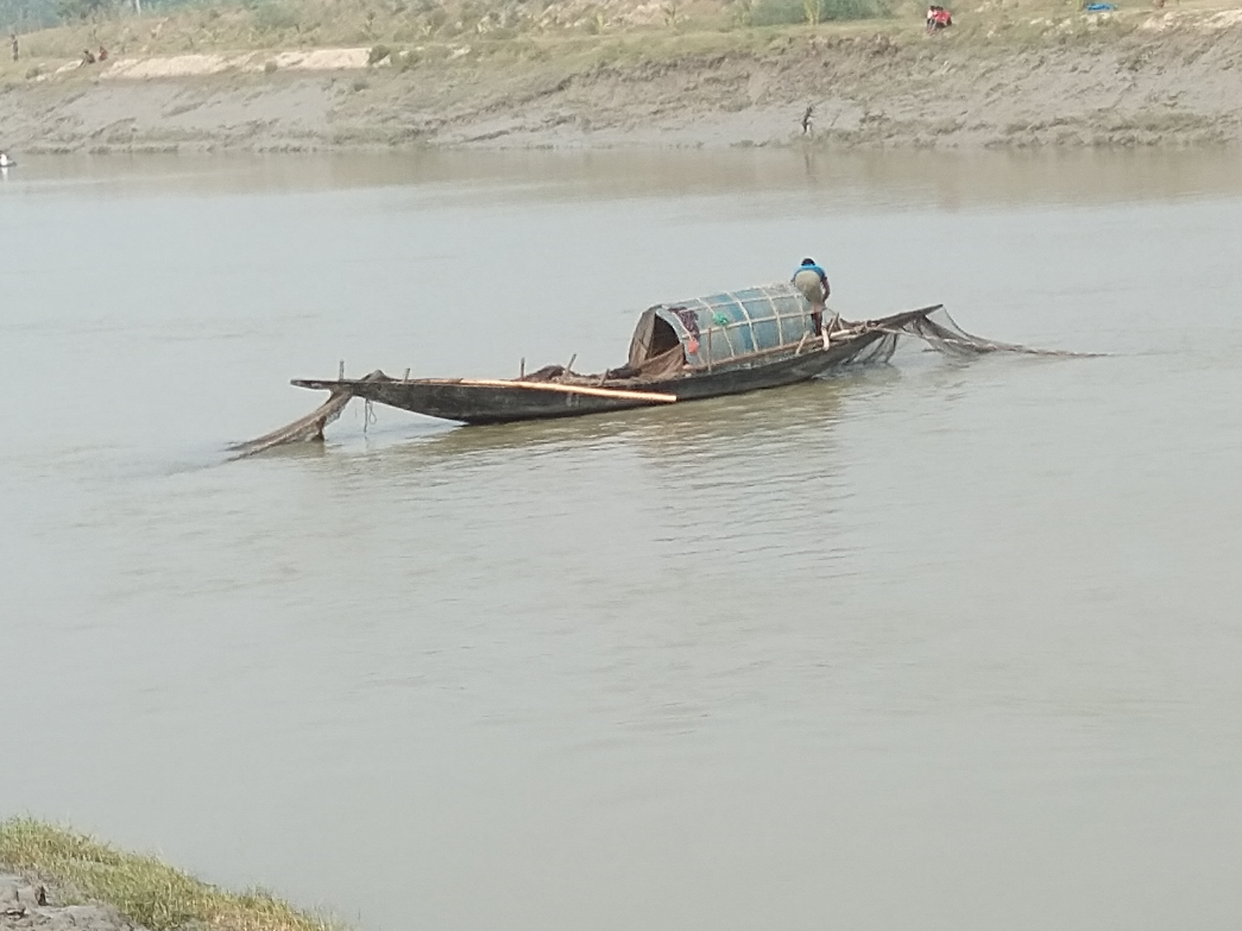 Bhodra river